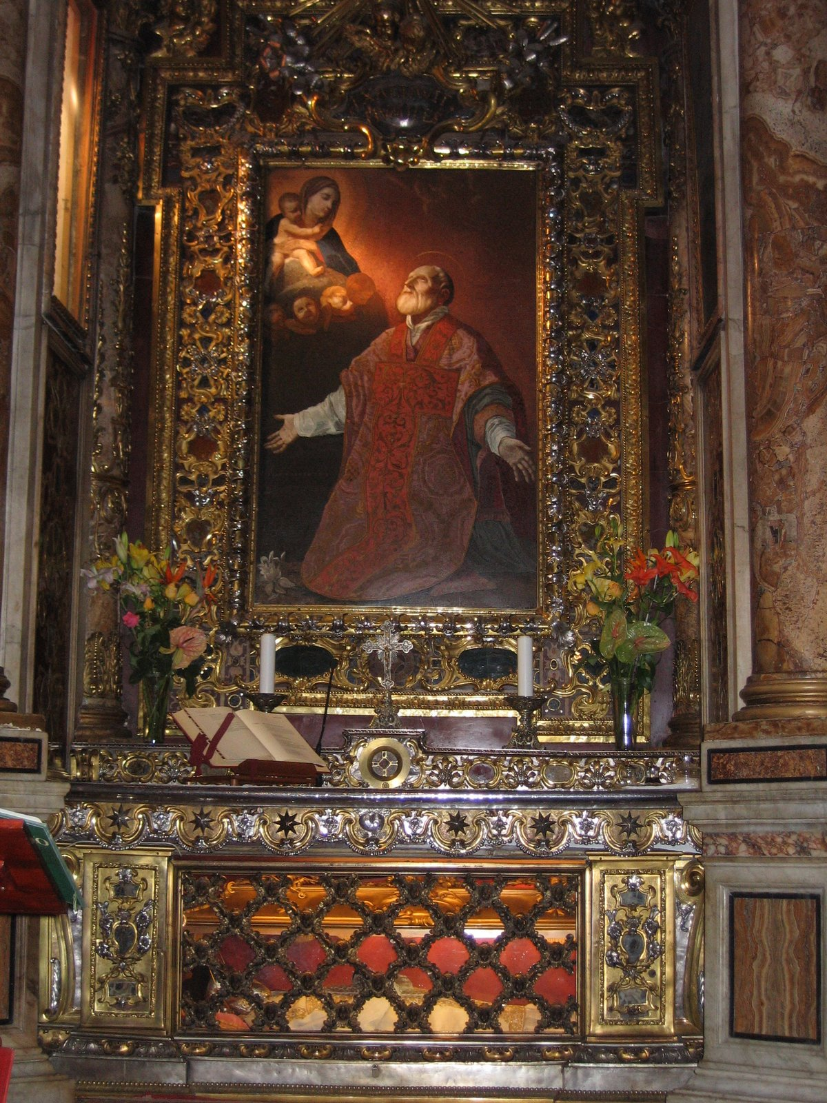 St. Philip Neri's altar at Chiesa Nuova (Rome), with Guido Reni's painting (a copy in mosaic) and the altar with the saint's body.